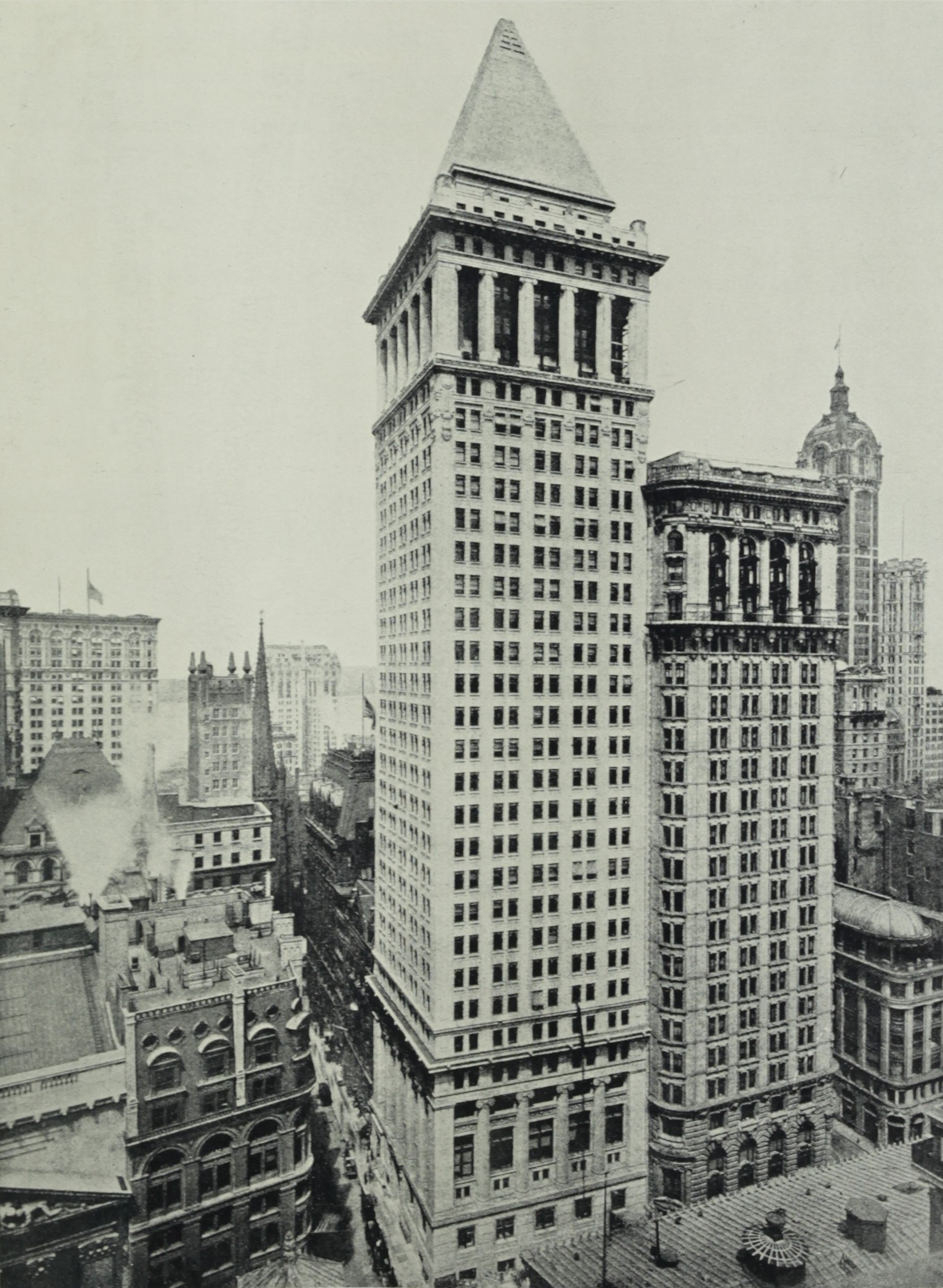 Bankers Trust Company Building, New York, 14 Wall Street, circa 1912